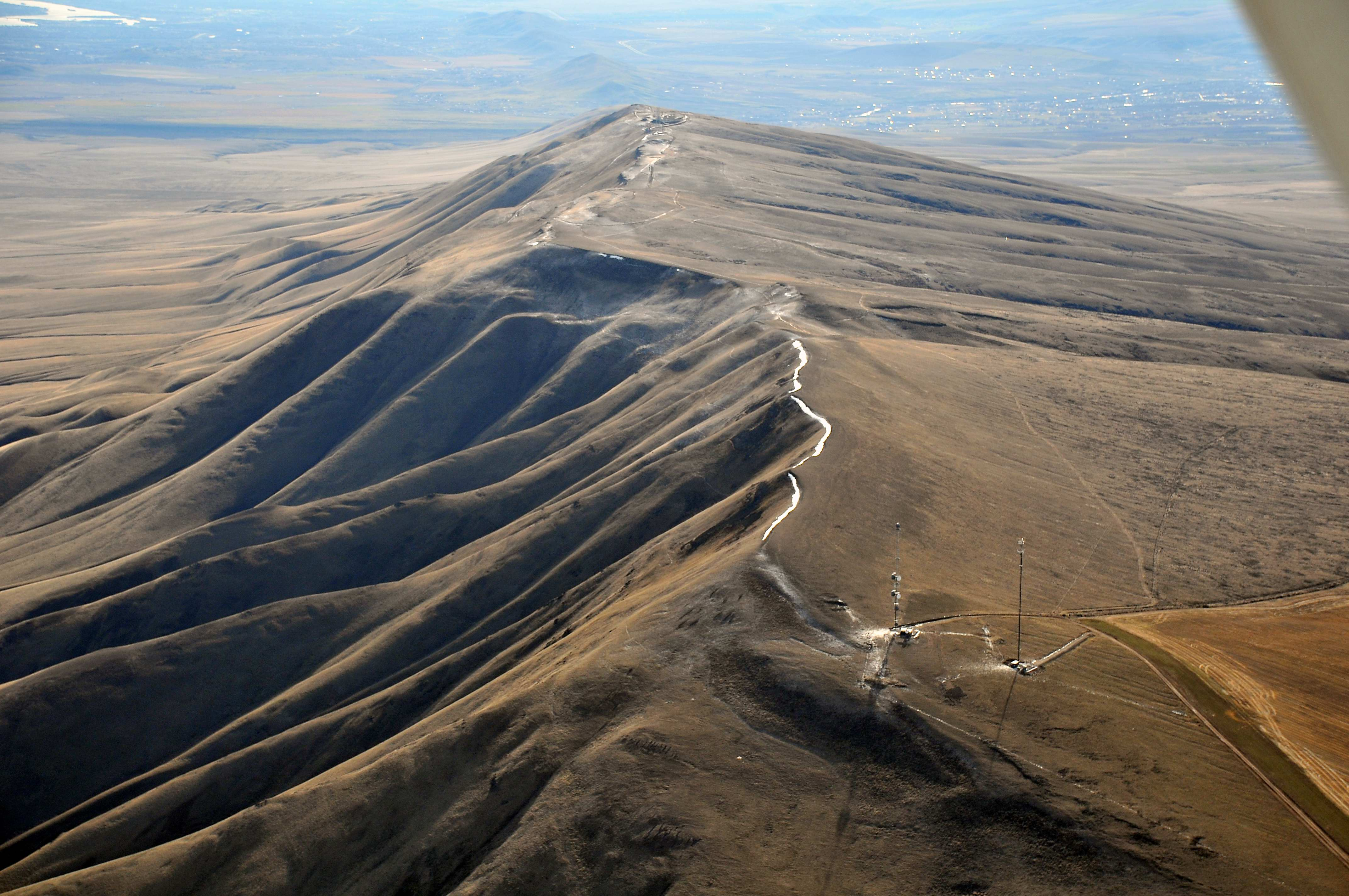 Once a buffer area for the U.S. Army, the Arid Lands Ecology Reserve is where workers removed more than 20 facilities and hundreds of debris sites and completed the first footprint reduction for the Hanford Site.